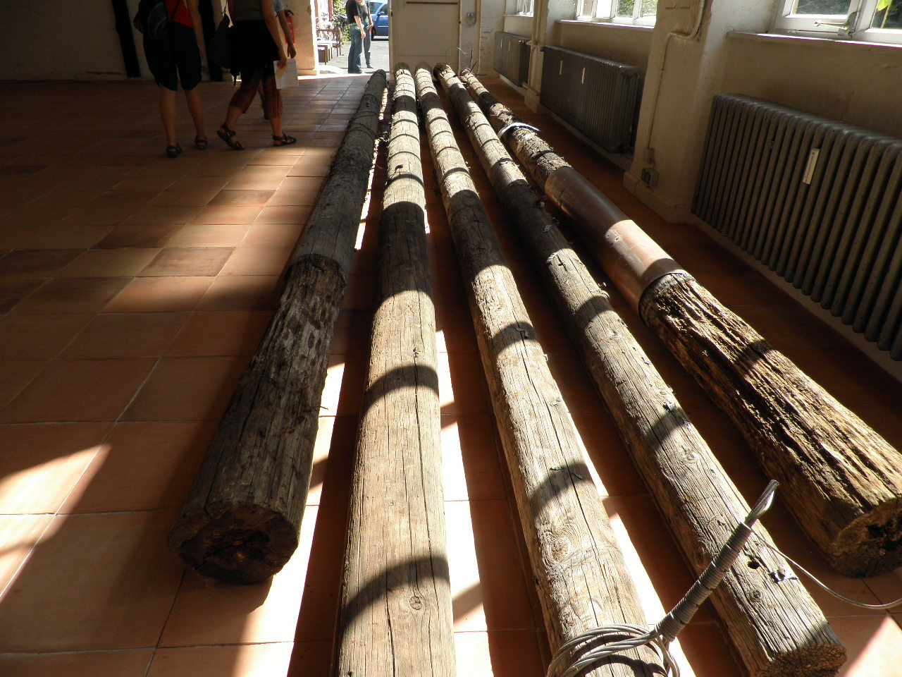 Artwork by Christodoulos Panayiotou (1978 Limassol, Cyprus; living in Paris and Limassol) for dOCUMENTA (13). Panayiotou has brought to the Hauptbahnhof of Kassel a set of recently removed electricity-supply poles from the city of Limassol in Cyprus. For Panayiotou the old wooden poles summarize a series of charged layers. They indicate the changes in the illumination infraestructure and also the disappearance of a form of comunication where the poles have been used as boards to fix snippets of paper; from political messages to popular, personal or comercial advertisements.